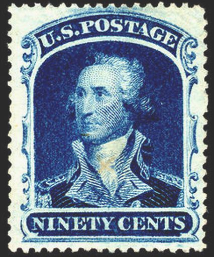 US Postage stamp: Washington, 1851 Issue, 3c